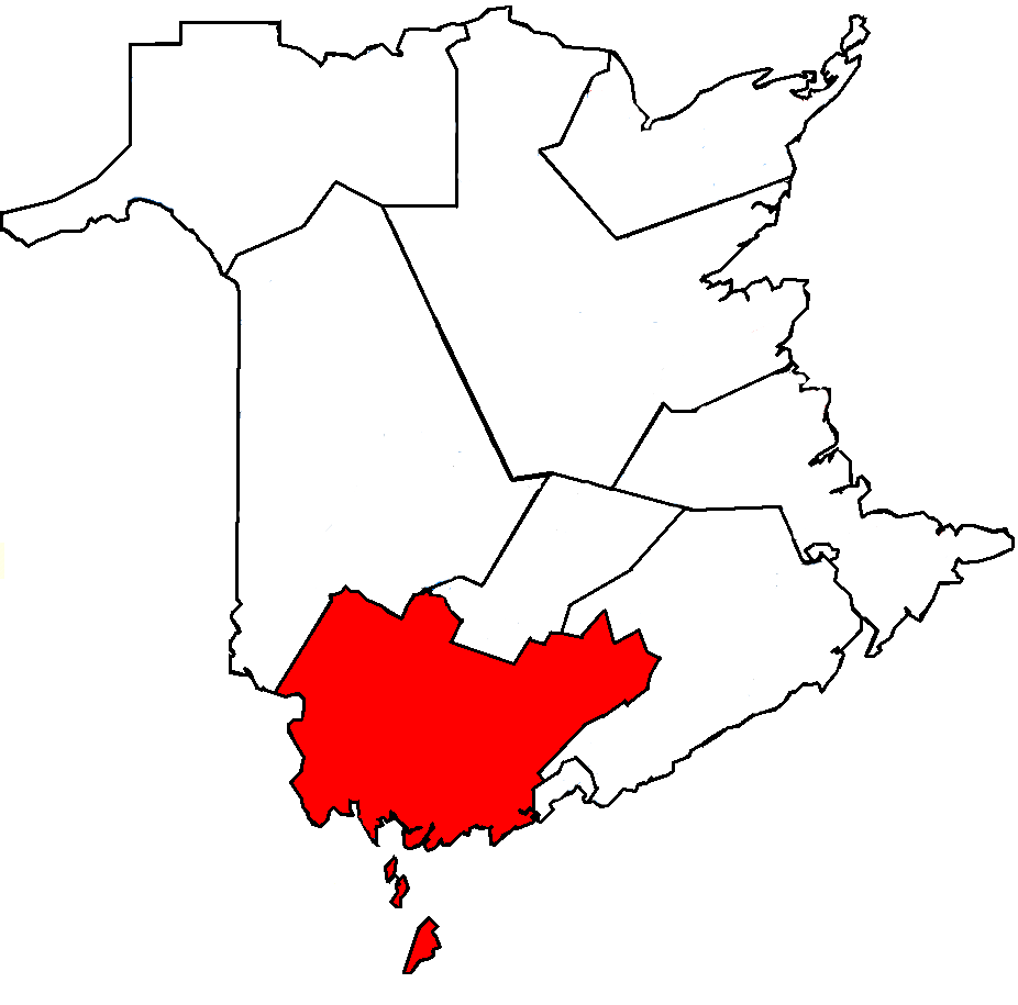 Map of the New Brunswick Southwest electoral district. Based on Earl Andrew's maps, created by SimonP.